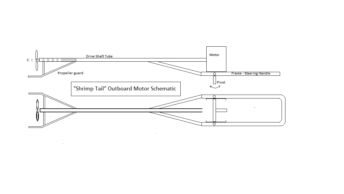 Vietnamese-style "Shrimp Tail Outboard Motor" Schematic. Design probably adapted decades ago from predecessors of Kohler Long tail Outboard Motor.